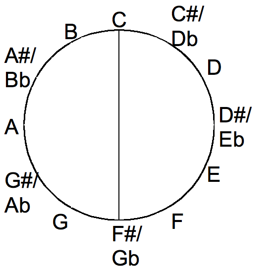 Tritone drawn in the chromatic circle. Also an augmented-fourths or tritone tuning.